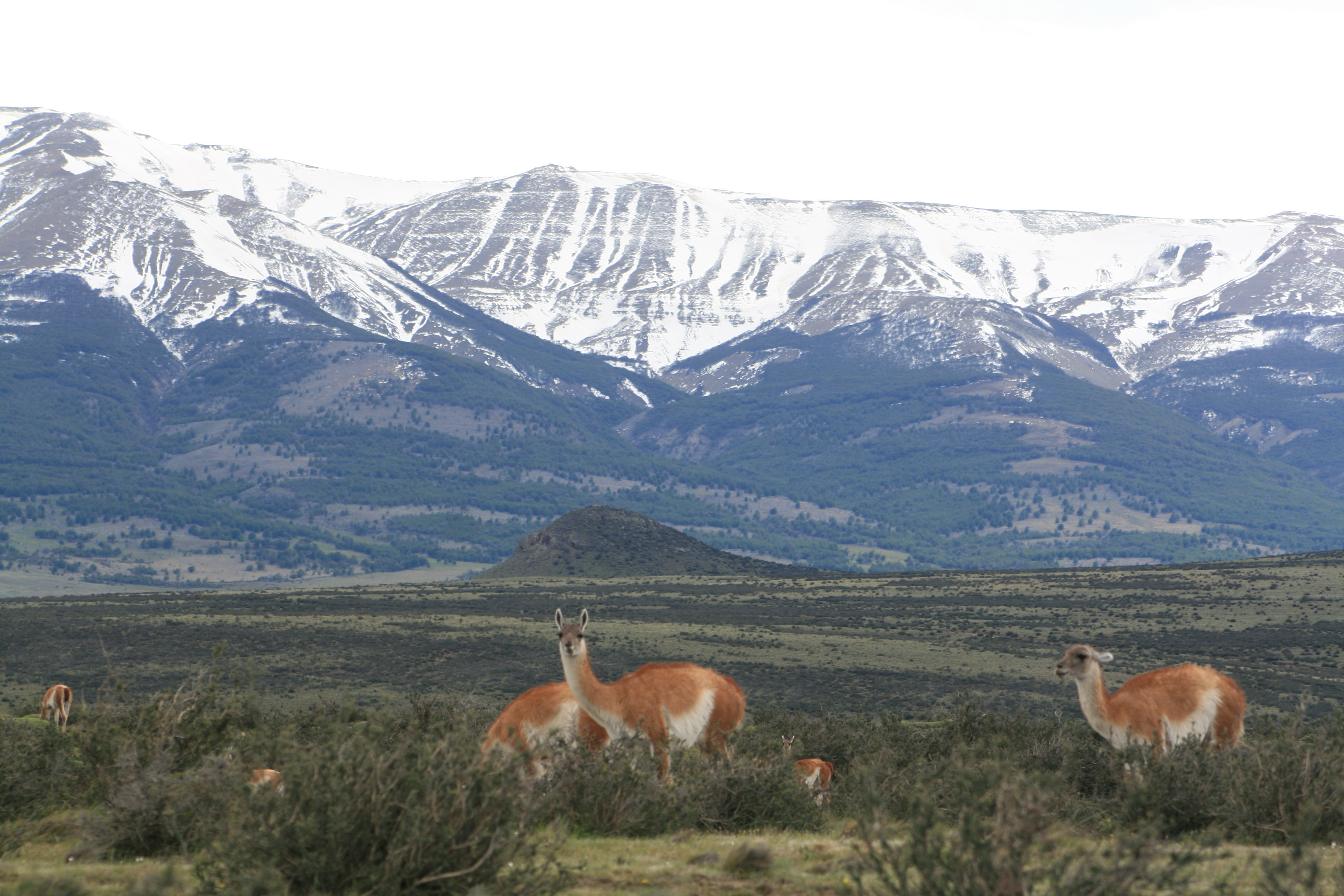 Guanacos (Lama guanicoe), Torres del Paine National Park, Chile